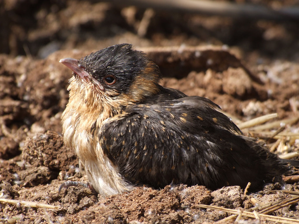 Clamator glandarius, Great Spotted Cuckoo